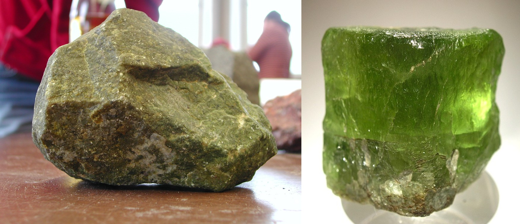 Olivine - rock-forming mineral of Dunite